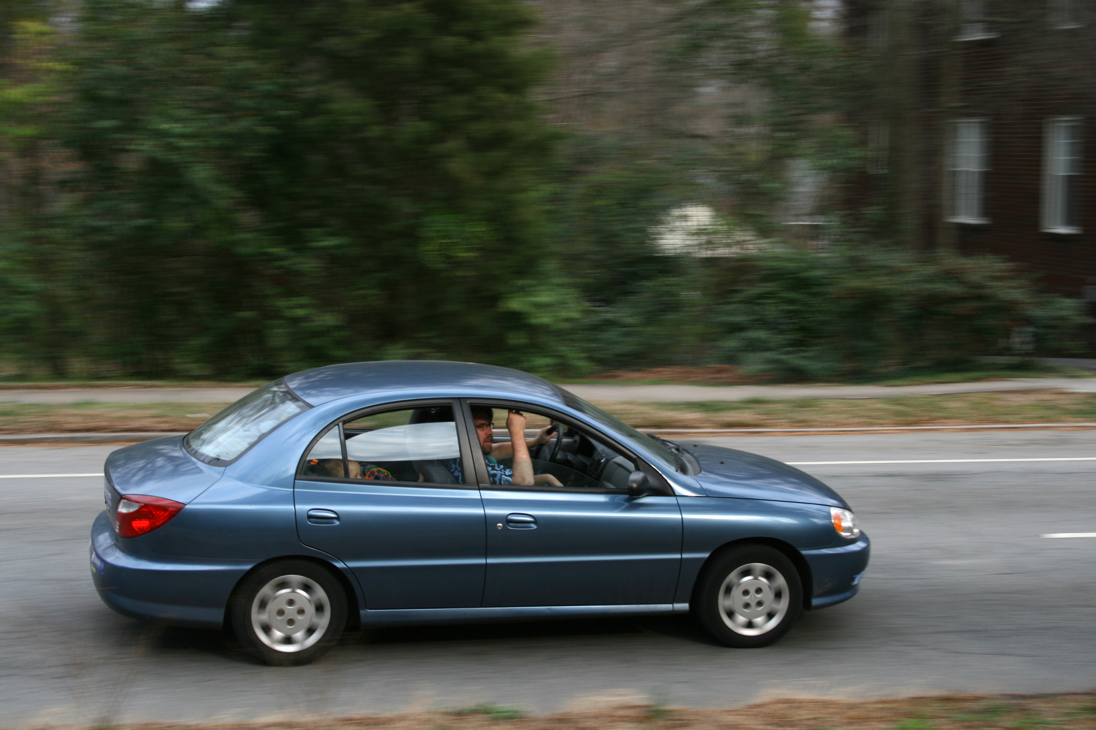 A Kia travelling southbound on North Gregson Street in Durham, North Carolina.